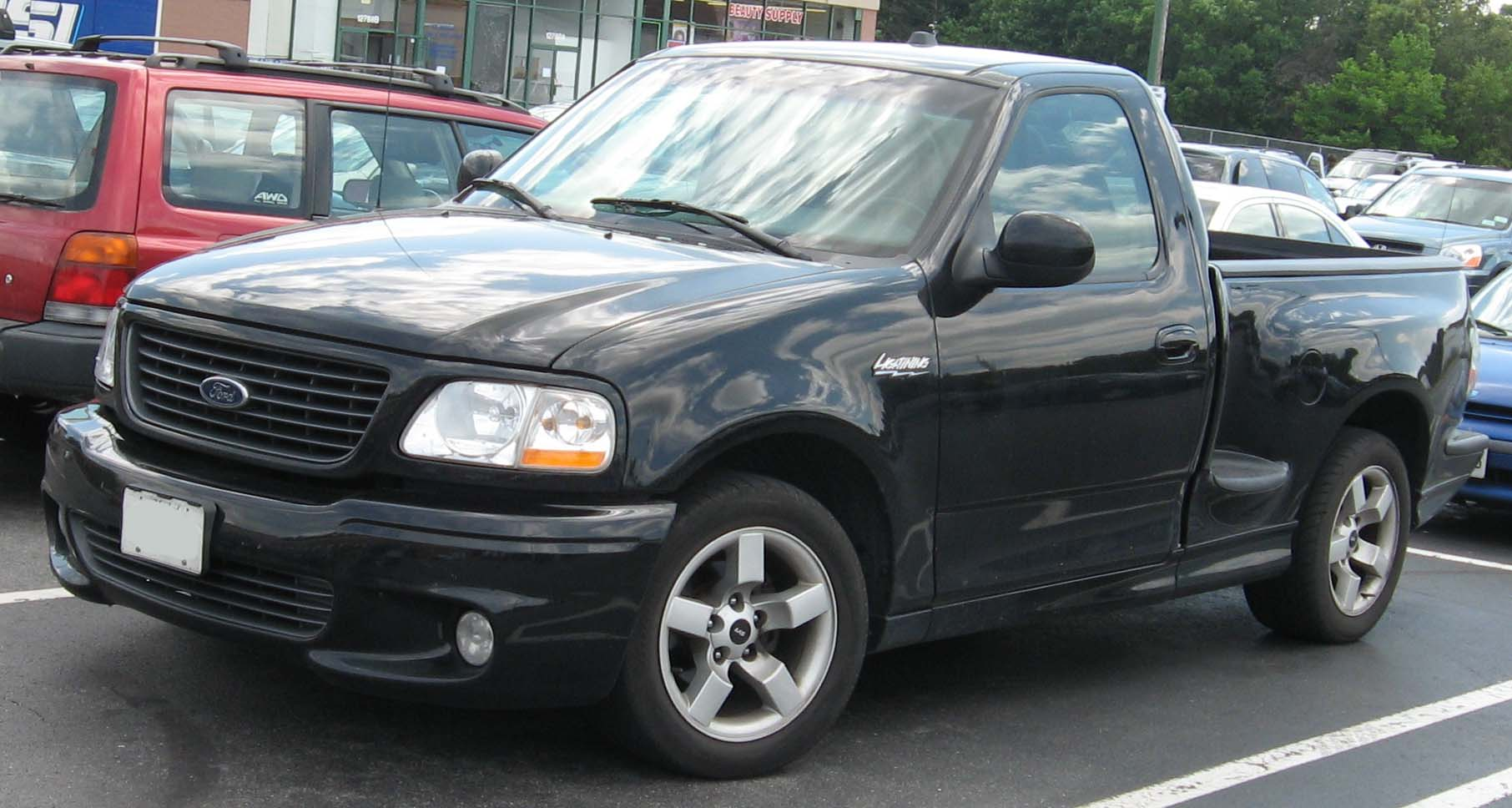 Ford F-150 SVT Lightning photographed in USA.